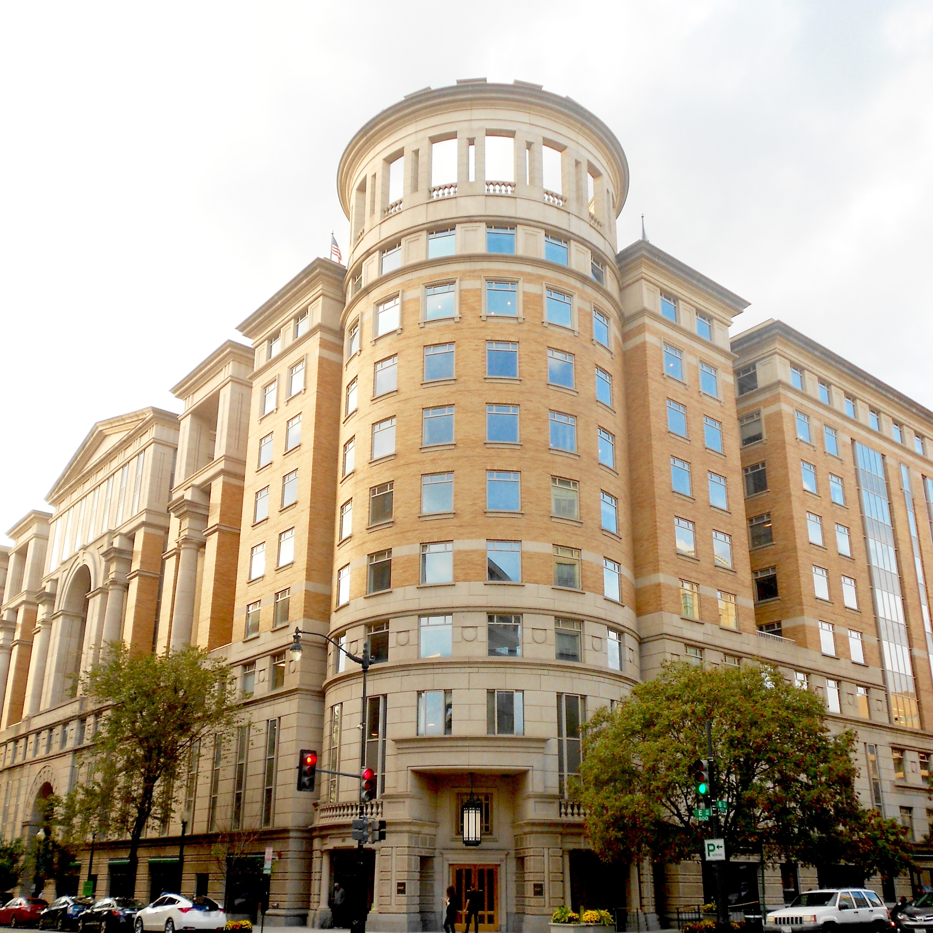 Headquarters of AARP, formerly known as the American Association of Retired People. Corner of 6th Street and E Street NW, Washington, DC